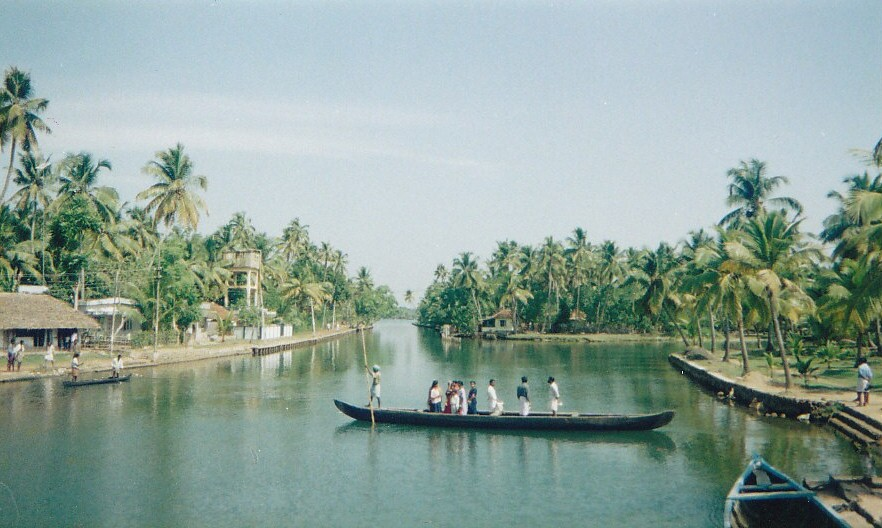 backwaters in Quilon (Kollam) neighbourhood (Kerala)